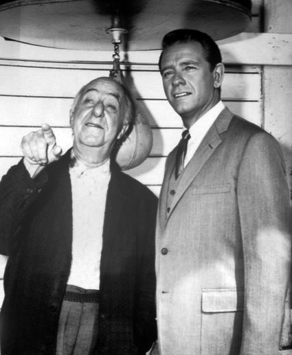 Publicity photo of Ed Wynn (guest star) and Richard Crenna from the television program Slattery's People.